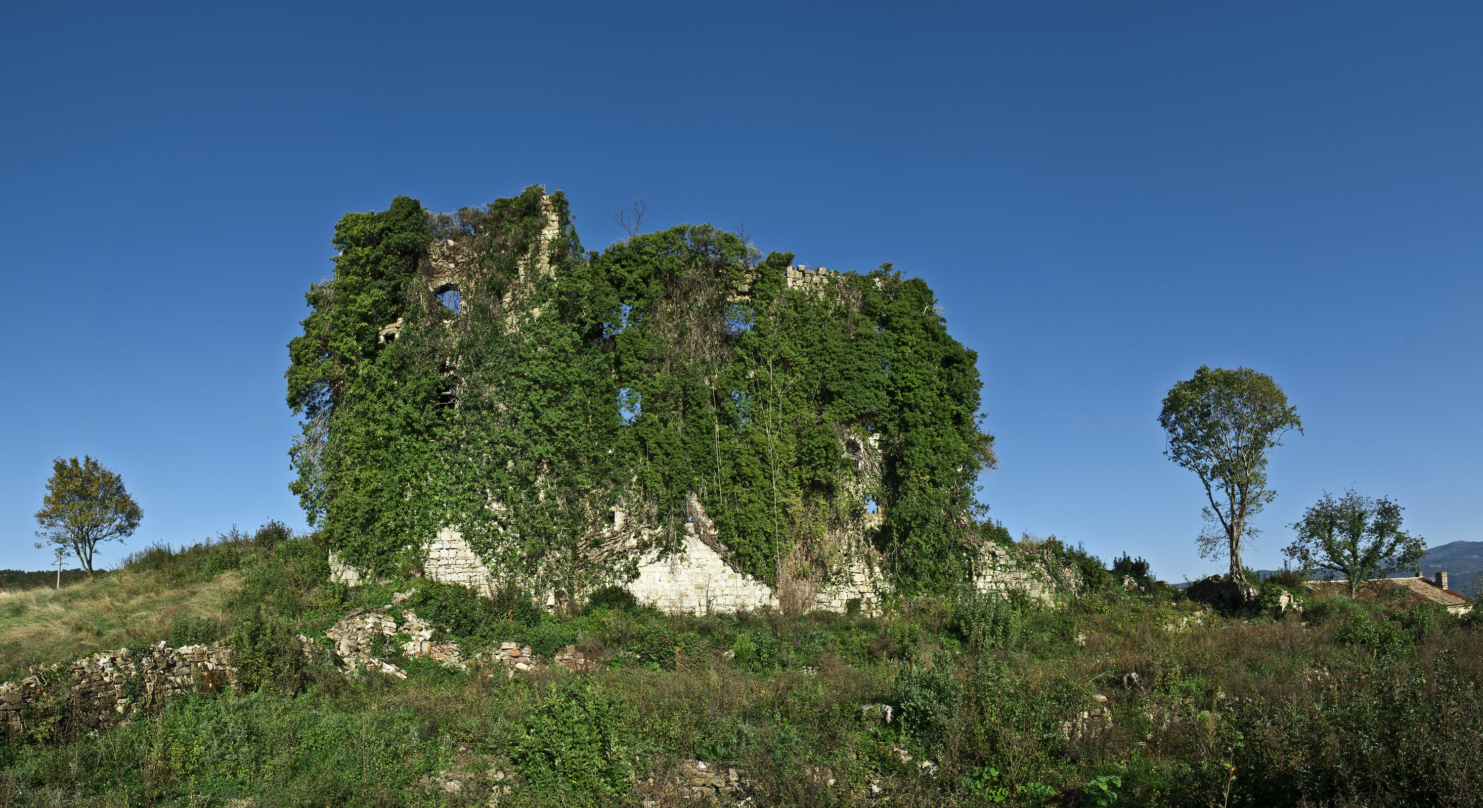 Ruins of Paz Castle in Istria, Croatia, on 1 November 2013, by Dinko Gubic.